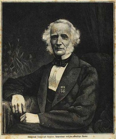 Danish royal gardener Rudolph Rothe (1802-1877)